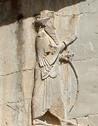 Xerxes I of Persia, from his Tomb at Persepolis.[1]